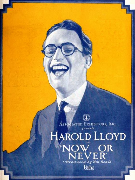 Advertisement for the American short film Now or Never (1921) with Harold Lloyd, from the insert after page 2 of the March 26, 1921 Exhibitors Herald.